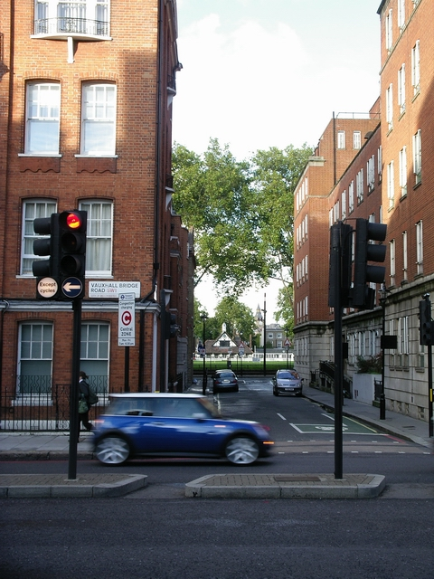 Bloomburg Street and Vauxhall Bridge Road, SW1. Looking down Bloomburg Street from its junction with Vauxhall Bridge Road. Bloomburg Street leads to Vincent Square. Big ben is visible in the background. The building on the right hand side of Bloomburg Street is the Gordon Hospital.